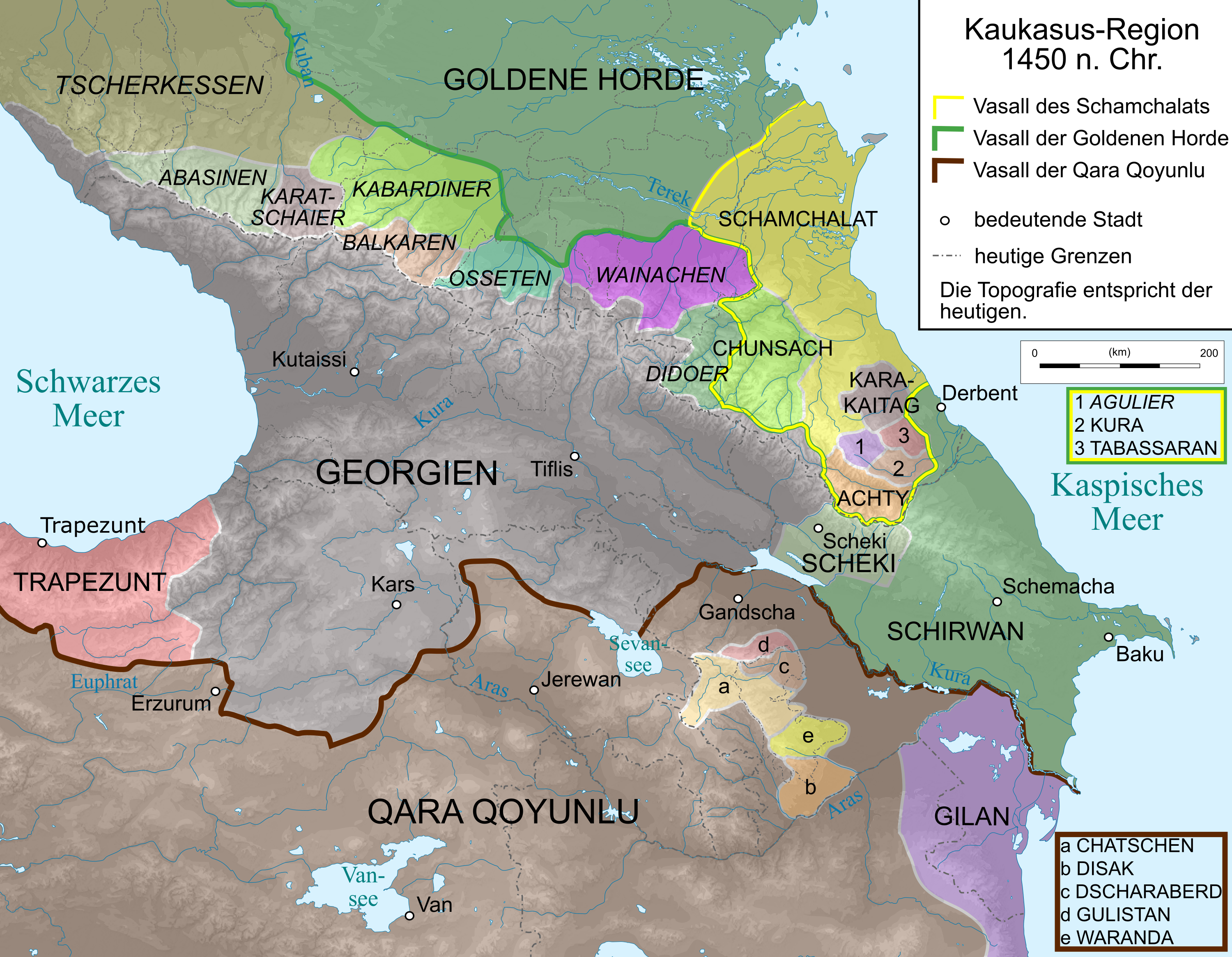 Map of Caucasus Region 1460 in German.